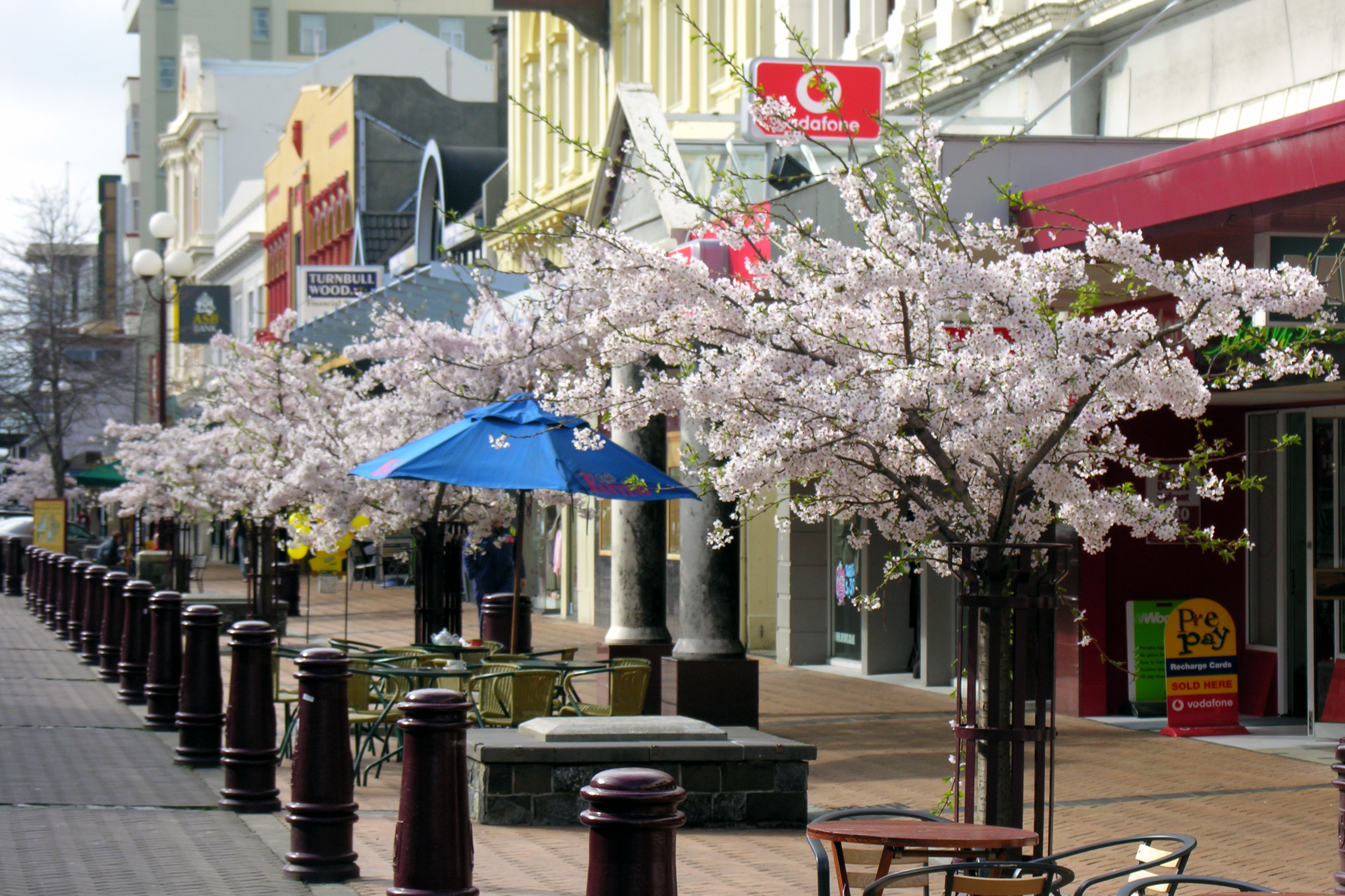 Invercargill is in the far south of New Zealand. Nevertheless spring is already well advanced after one of the mildest winters on record.